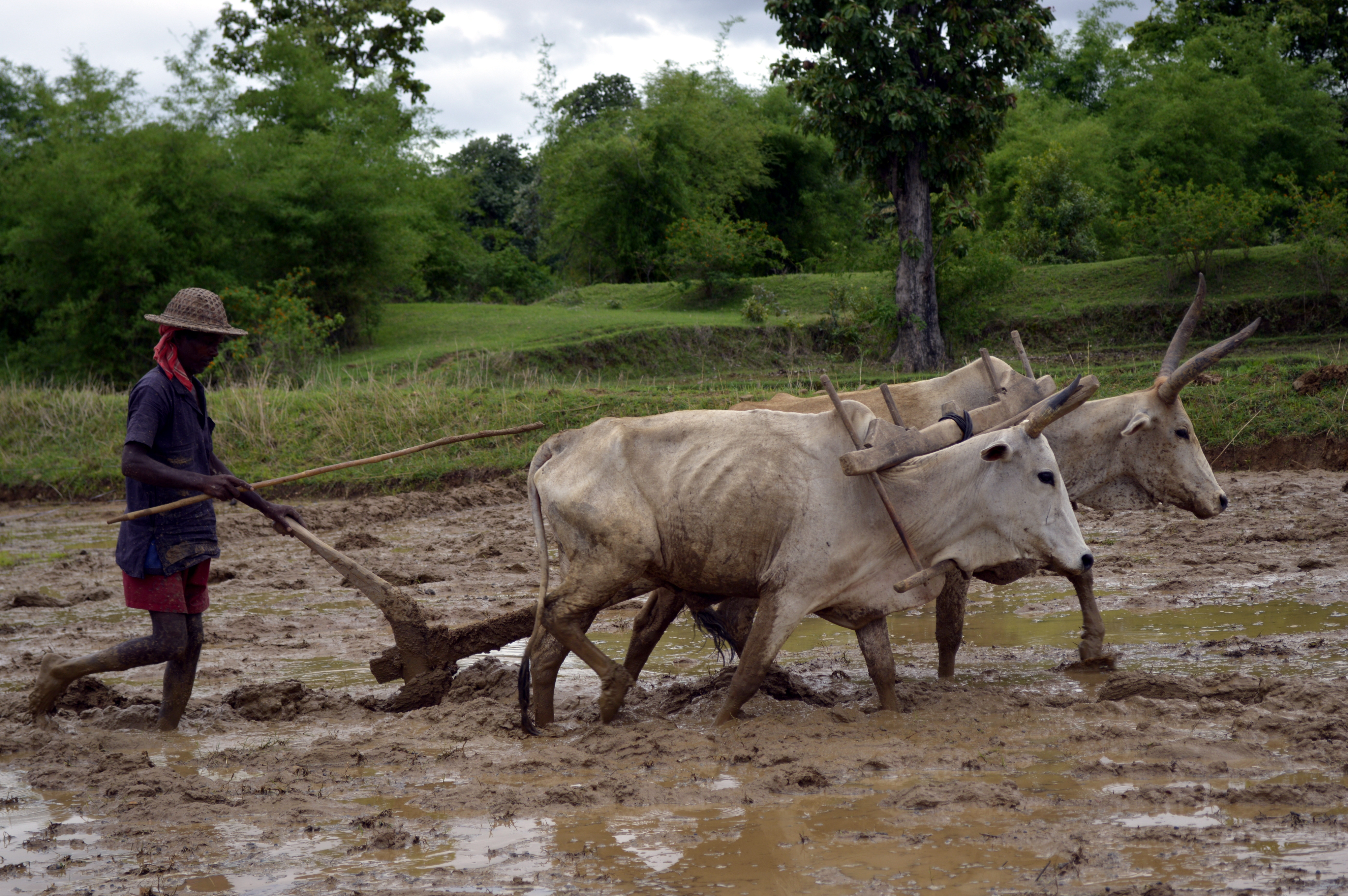 Ploughing a paddy field with oxen, Umaria district, Madhya Pradesh, India.